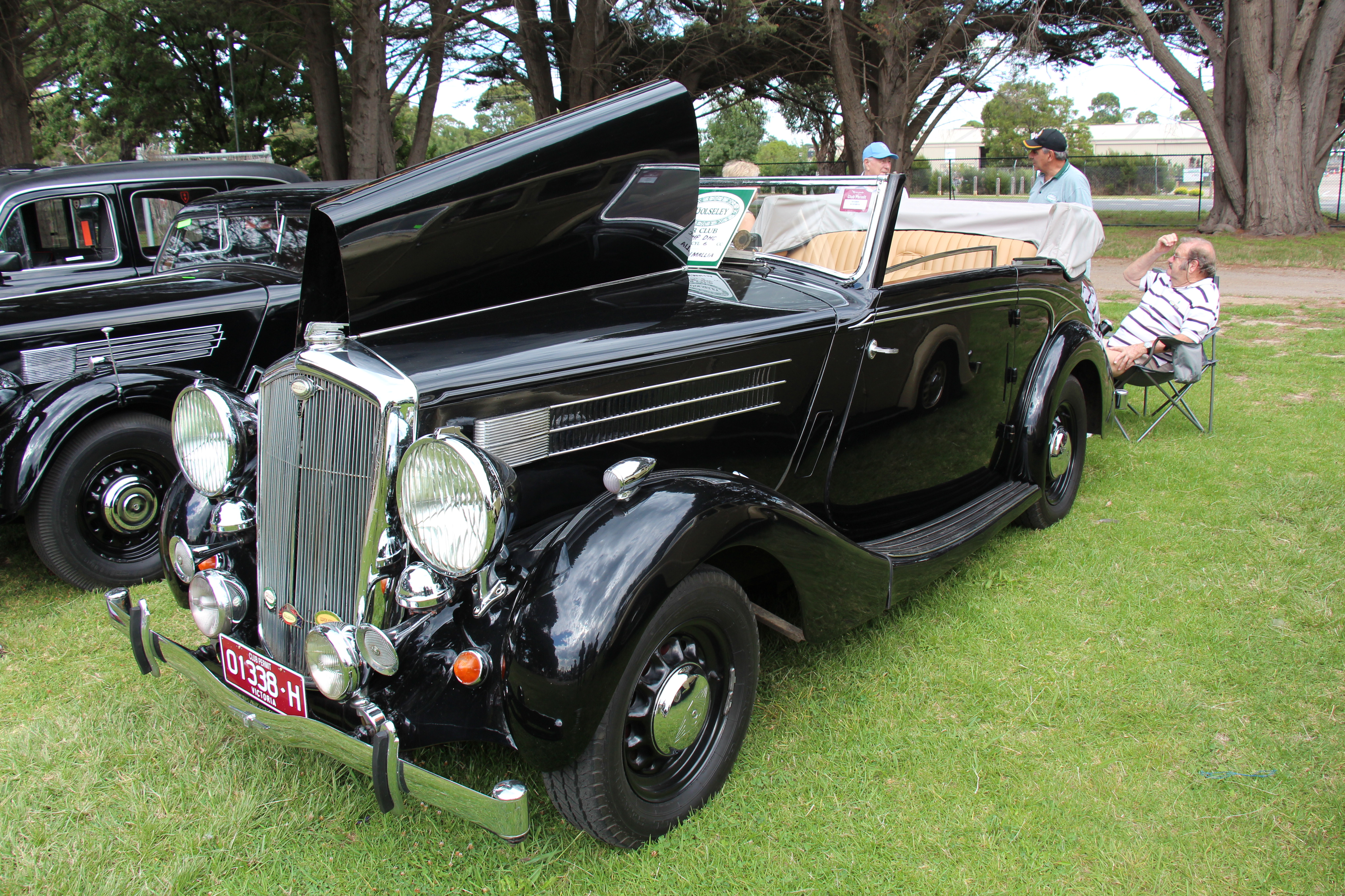 In 1937, the employees of Wolseley Motors set out to build a special car for their chairman, Lord Nuffield, formerly William Morris. The car they built was intended as a one-off. It was a Drophead Coupe, using Wolseley’s largest engine of 3.5 litres in a ‘medium size’ 14/16/18HP chassis The car was so much admired that a decision was later taken to put it into limited production. Just 175 Wolseley 25HP Dropheads were built, it is said that only 18 survive today.